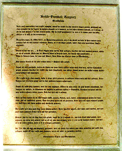 Oberkirchen plaque in memory of the witchcraft trial against Christine Teipel